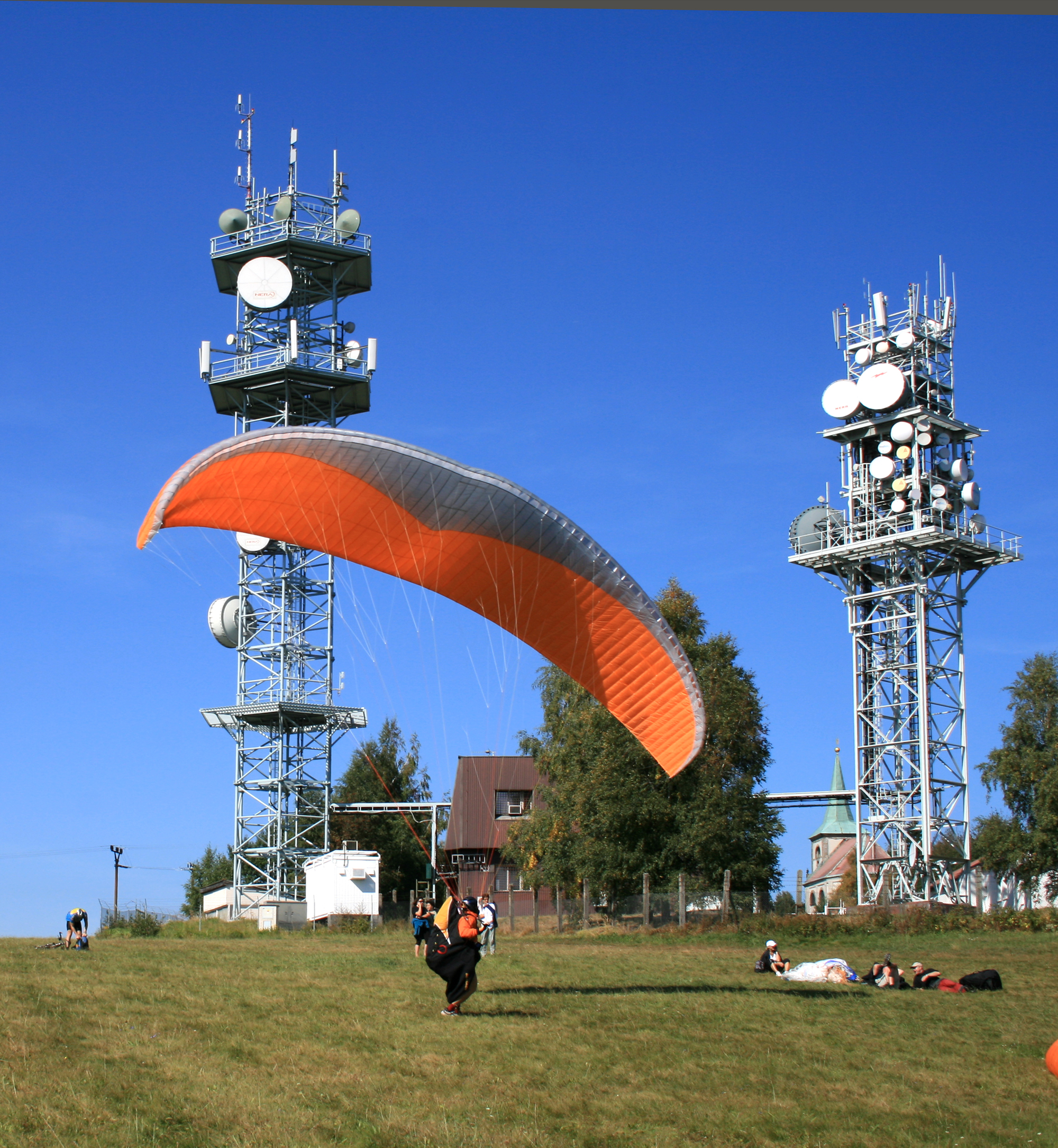 Transmitters towers and paraglider on the hill Zvičina in east Bohemia, Czech Republic